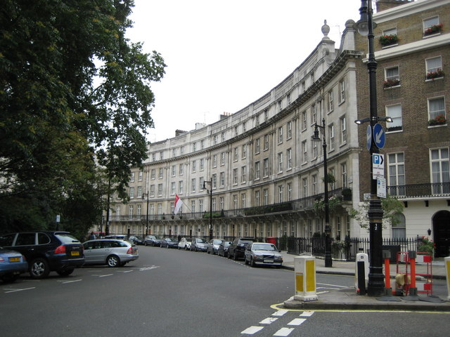 Belgravia: Wilton Crescent, SW1 Wilton Crescent, to the north-west of Belgrave Square was laid out in 1827 as part of the new Grosvenor Estate, built on the lands of the Duke of Westminster. The buildings in this part of the crescent were refaced with stone in the early 1900s, making them look different from the stuccoed terraces which are a characteristic feature of the rest of the estate. The red and white flag is that of the Singaporean High Commission at 9 Wilton Crescent. This view is of the western arc of the crescent. Danny's 213435 shows the eastern arc.